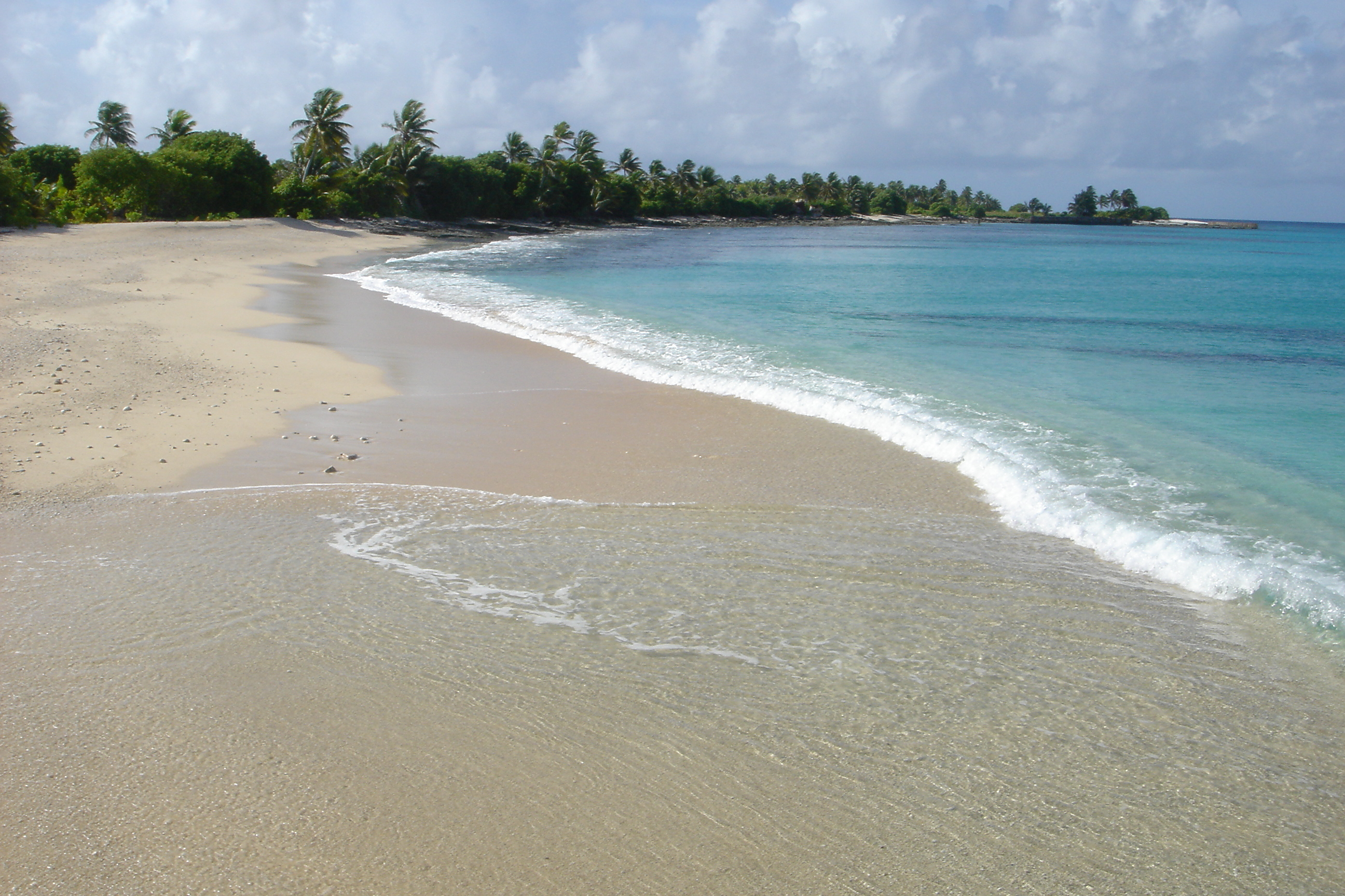 Bikini Atoll Nuclear Test Site (Marshall Islands)